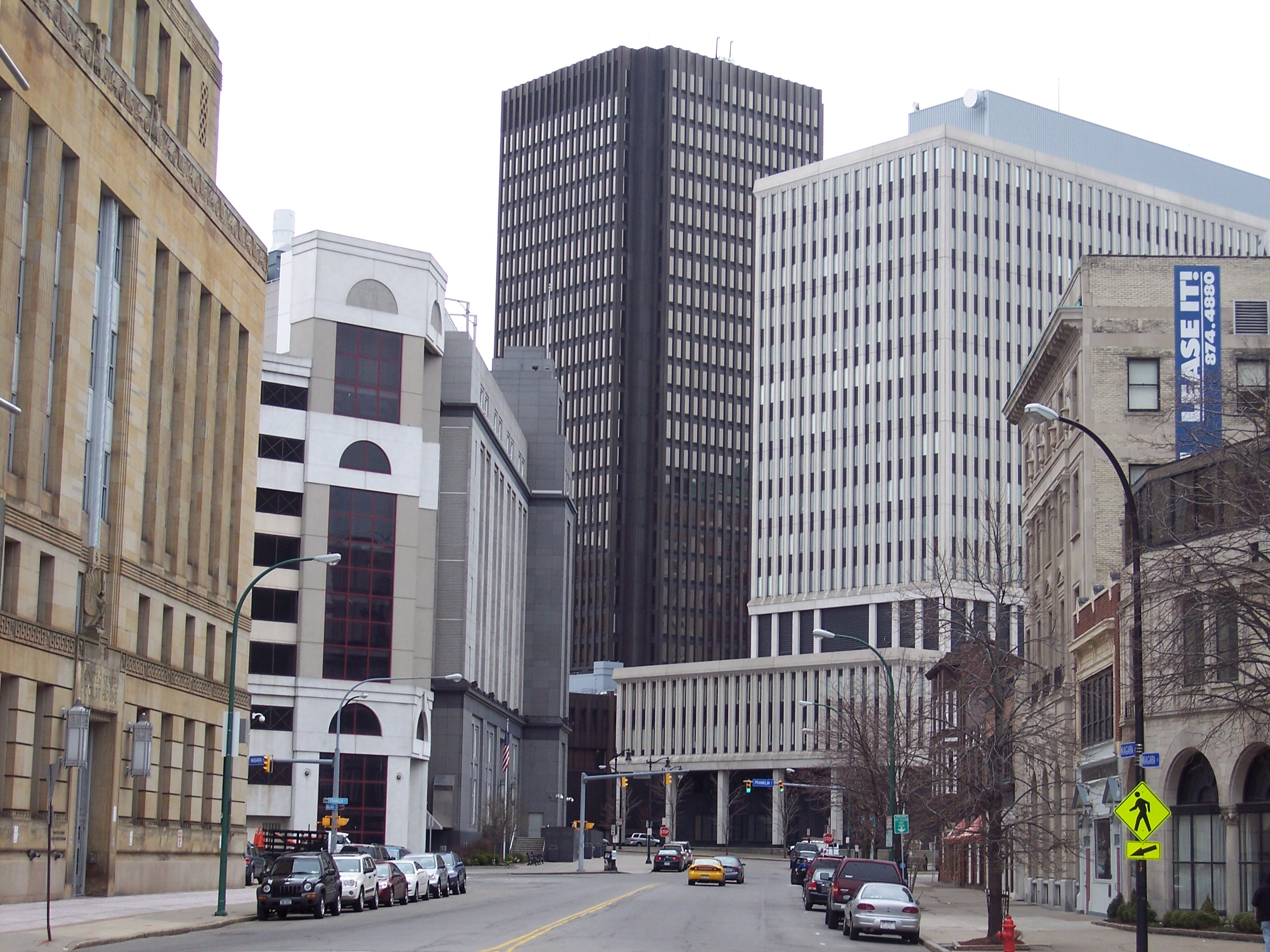 Main Place Tower (view from Niagara Square), 350 Main Street Buffalo NY